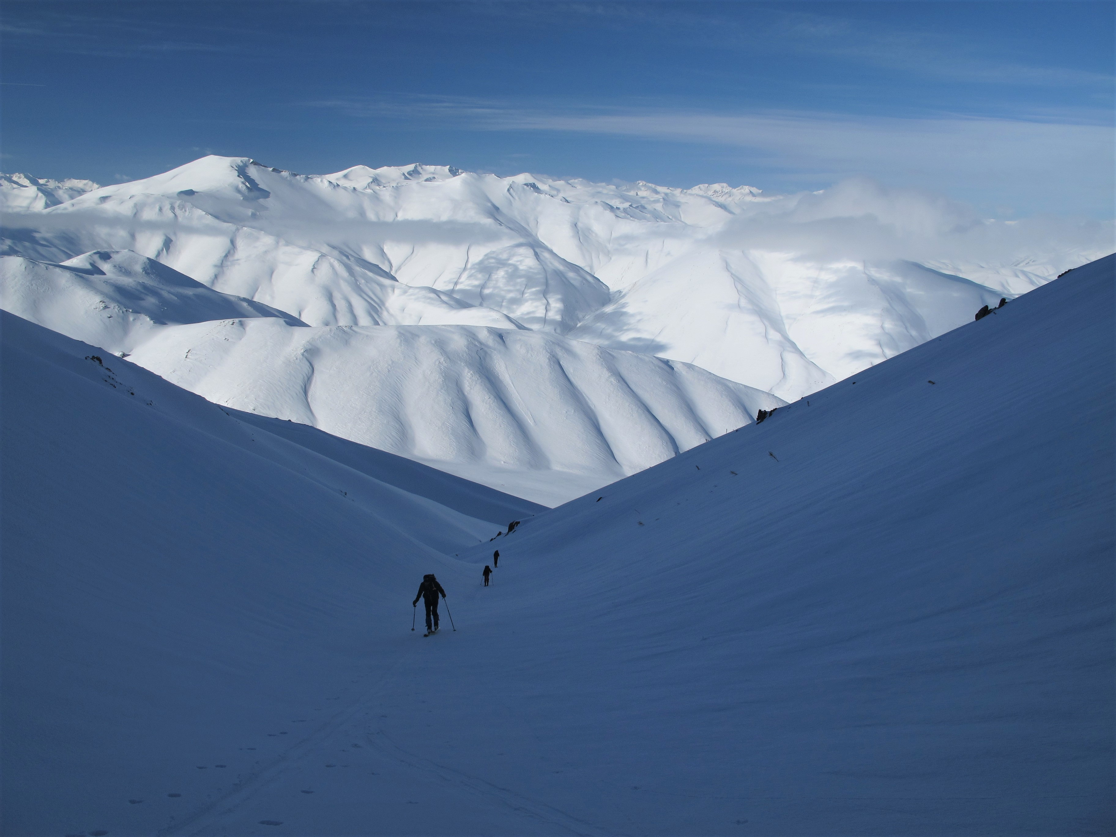 Winter view on northern parts of Ihtiyarşahap Dağları from western side of Mount Artos